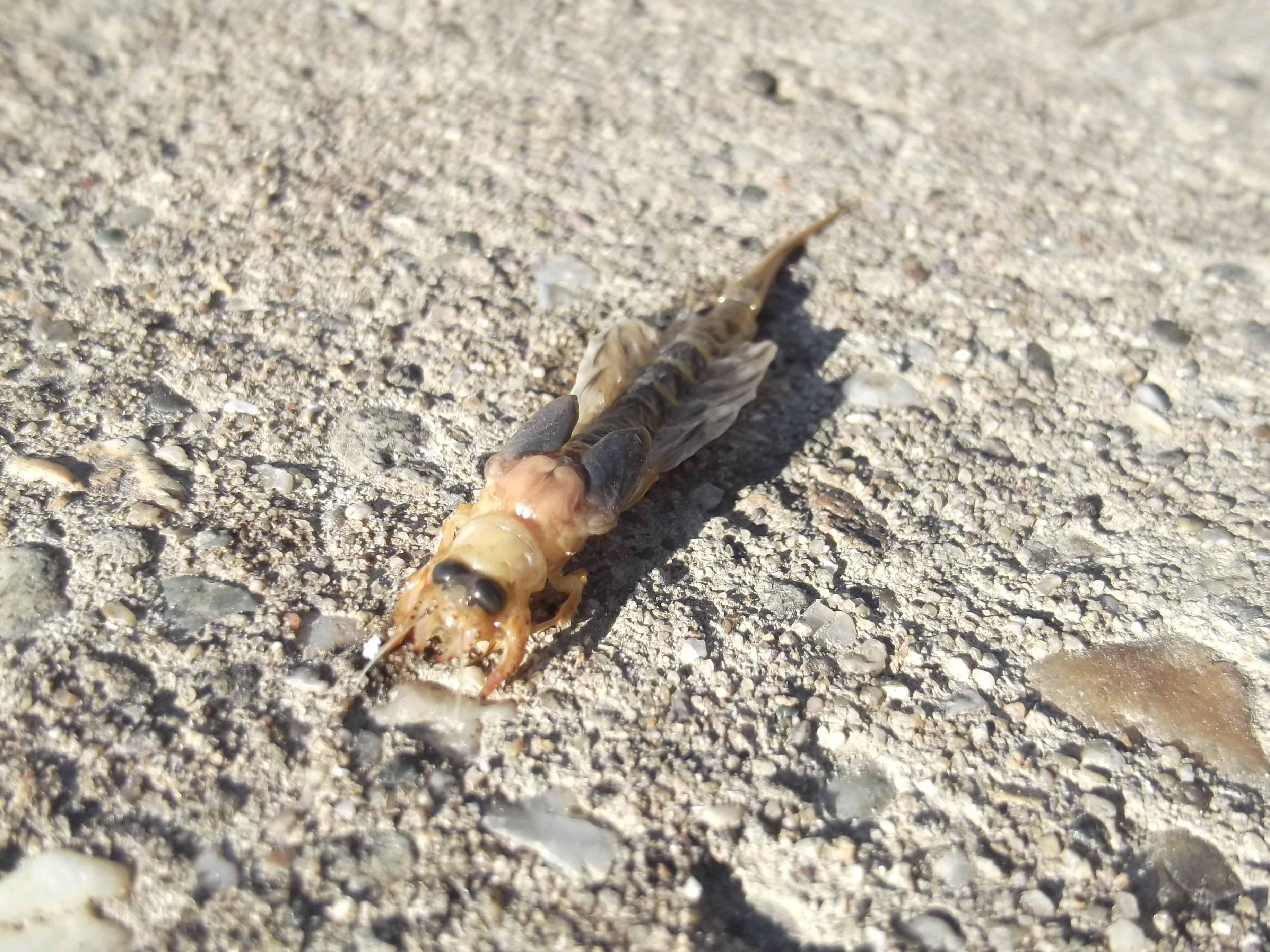 Palingenia longicauda The Giant Mayfly nymph